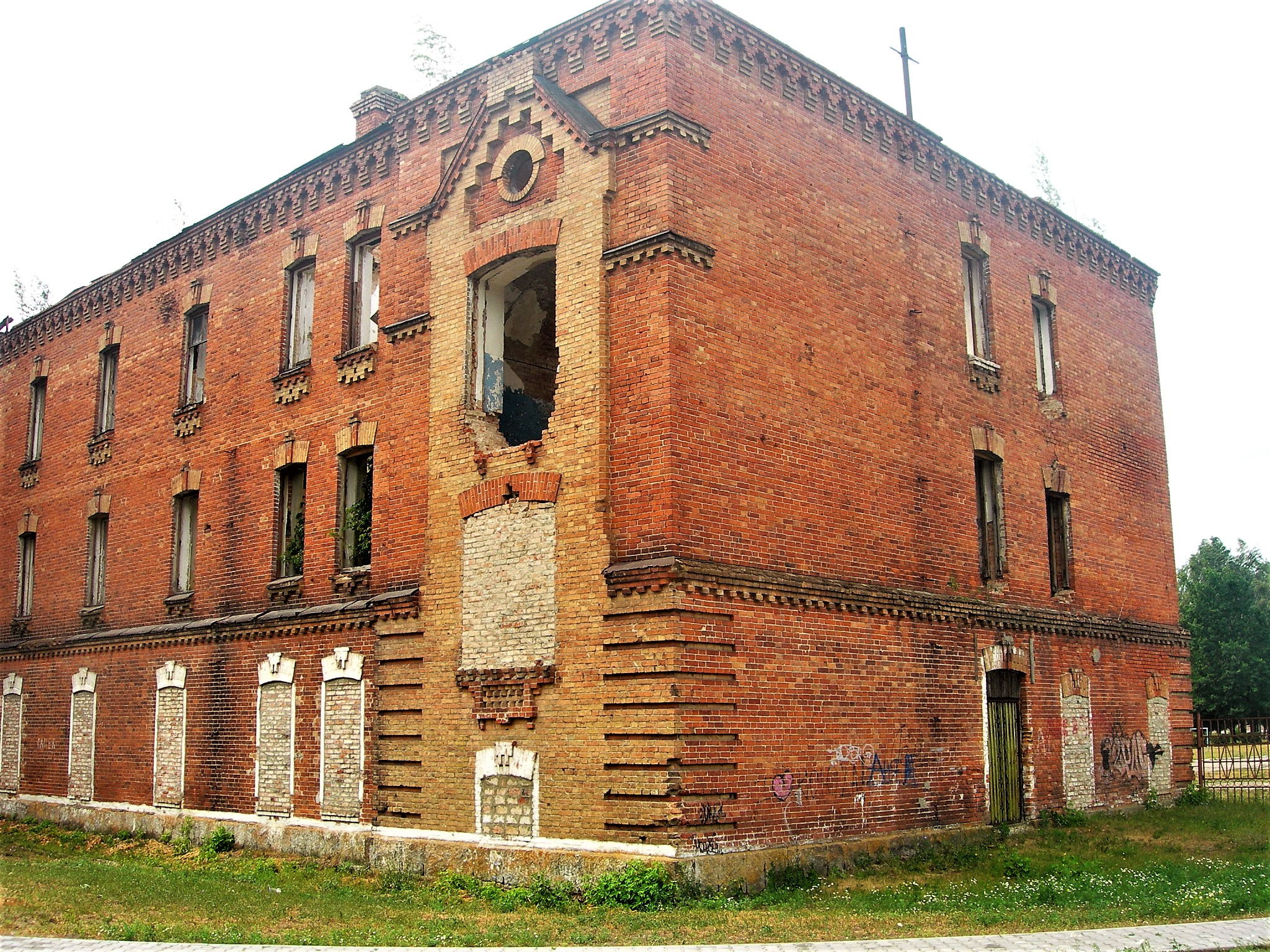 Russian casernes built of Biaroza monastery brick, later used as a Polish concentration camp